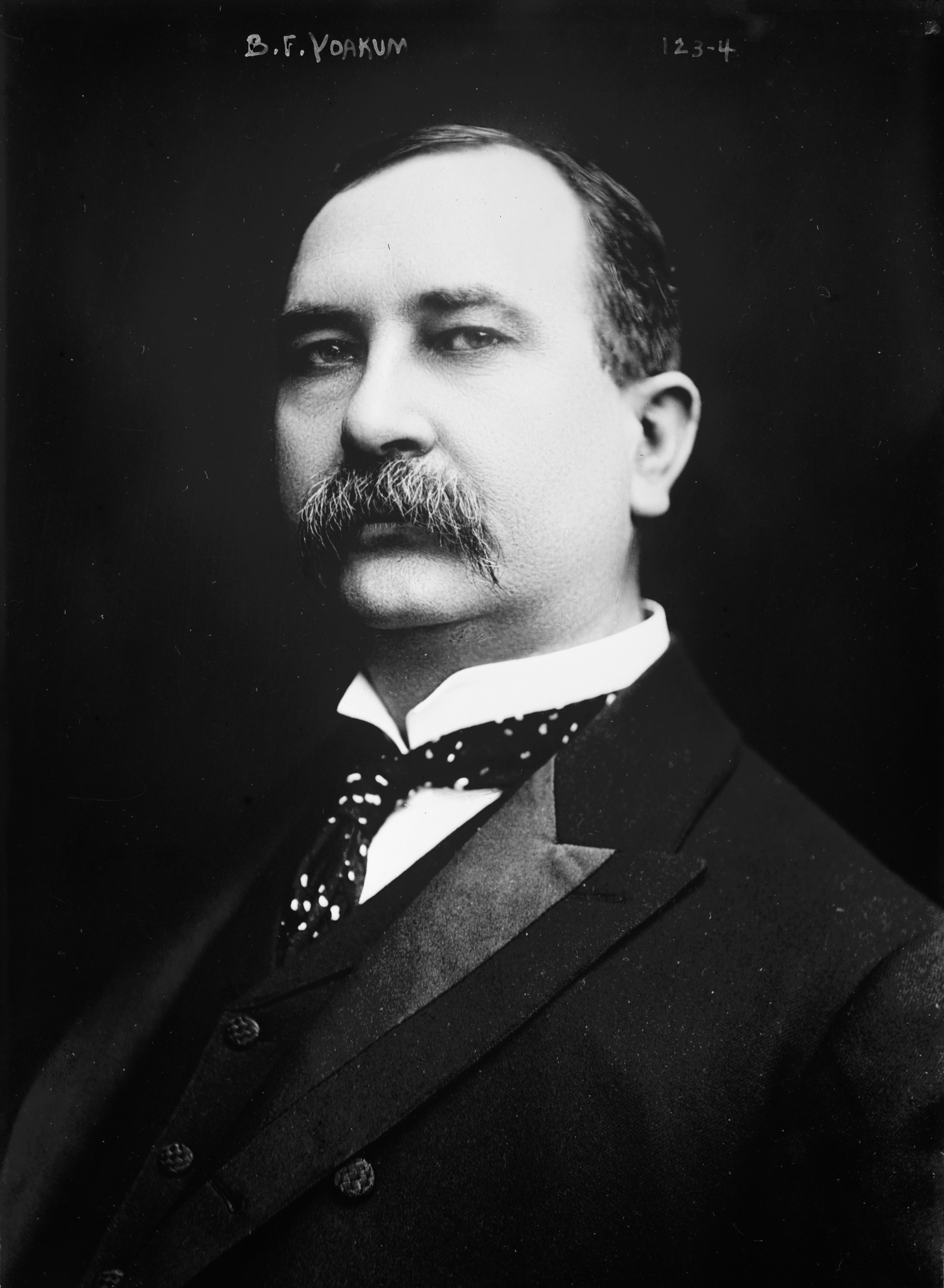 Photograph of railroad executive B. F. Yoakum circa 1900. Found at Hard Times blog, 4 April 2011. Since the photo is more than a century old, I believe it to be in the public domain, and is fair use to illustrate article Benjamin Franklin Yoakum.